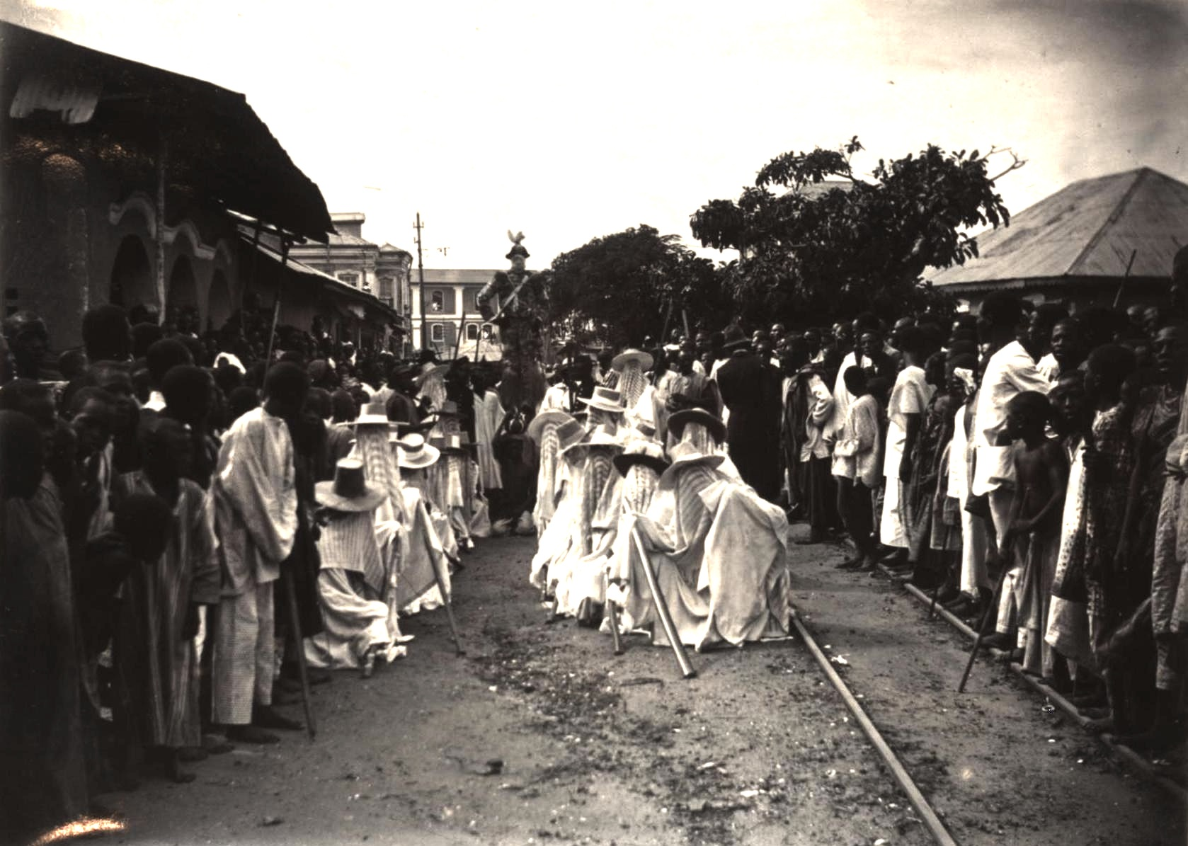 Creator: H. Hunting Title: "Adimouruisha" of Faro Ekin, Lagos July 1912 Date: [July 1912] Extent: 1 photograph: black and white (10 x 15cm) Notes: Title transcribed from caption Picture shows a group of covered people parading down a street in Lagos, possibly as a part of a funeral. From a two volume set of photographic albums containing 130 photographs. Photographs depict representatives of the Paterson Zochonis trading company and the various tribes they encountered in the course of trading in West Africa. Subjects: Photograph albums Nigeria, Photograph Albums Sierra Leone, Commerce--Nigeria--1910-1920 Format: Photograph Rights Info: No known restrictions on access Repository: Thomas Fisher Rare Book Library, University of Toronto, Toronto, Ontario Canada, M5S 1A5